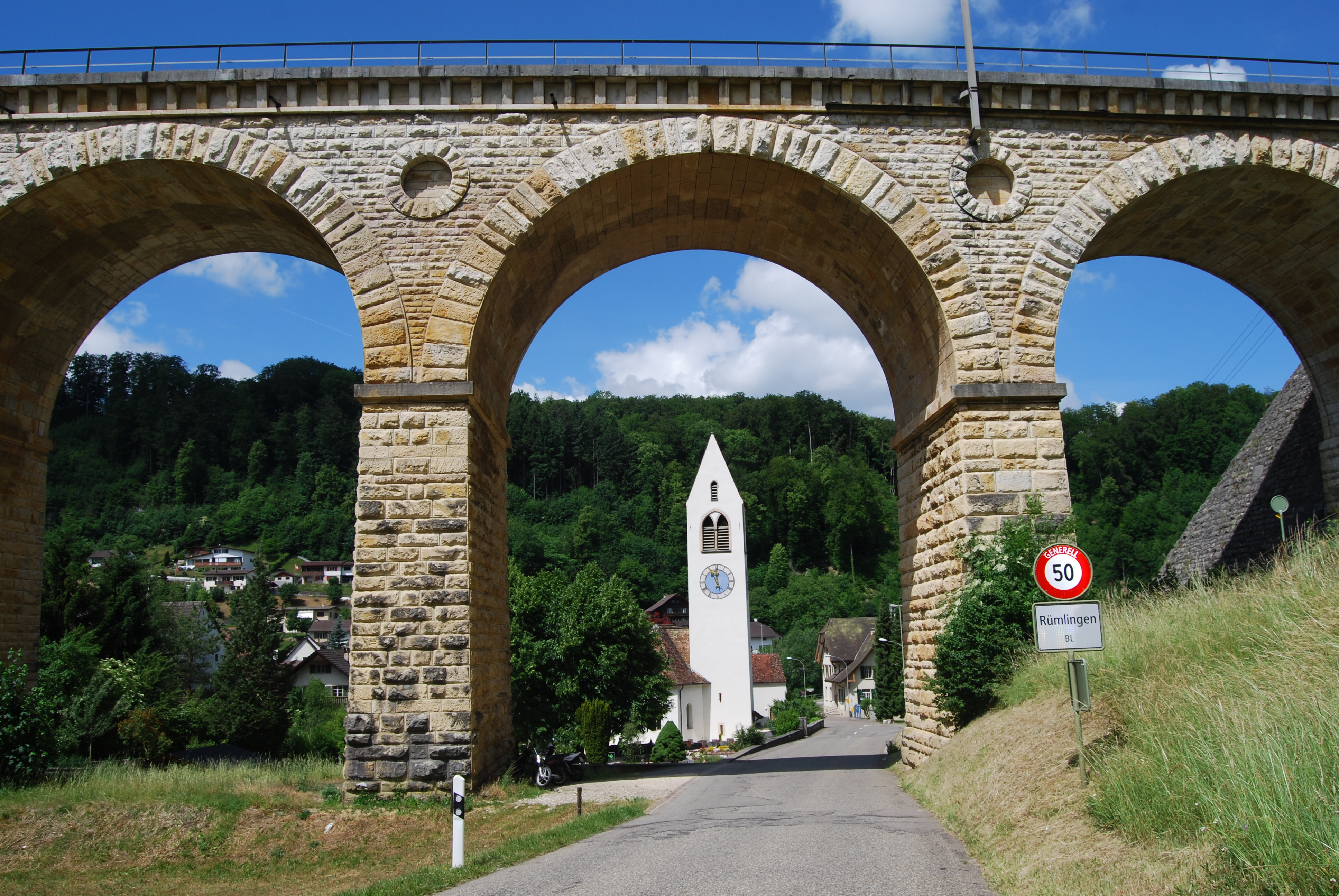 Church and viaduct of Rümlingen, canton of Basel-Country, Switzerland